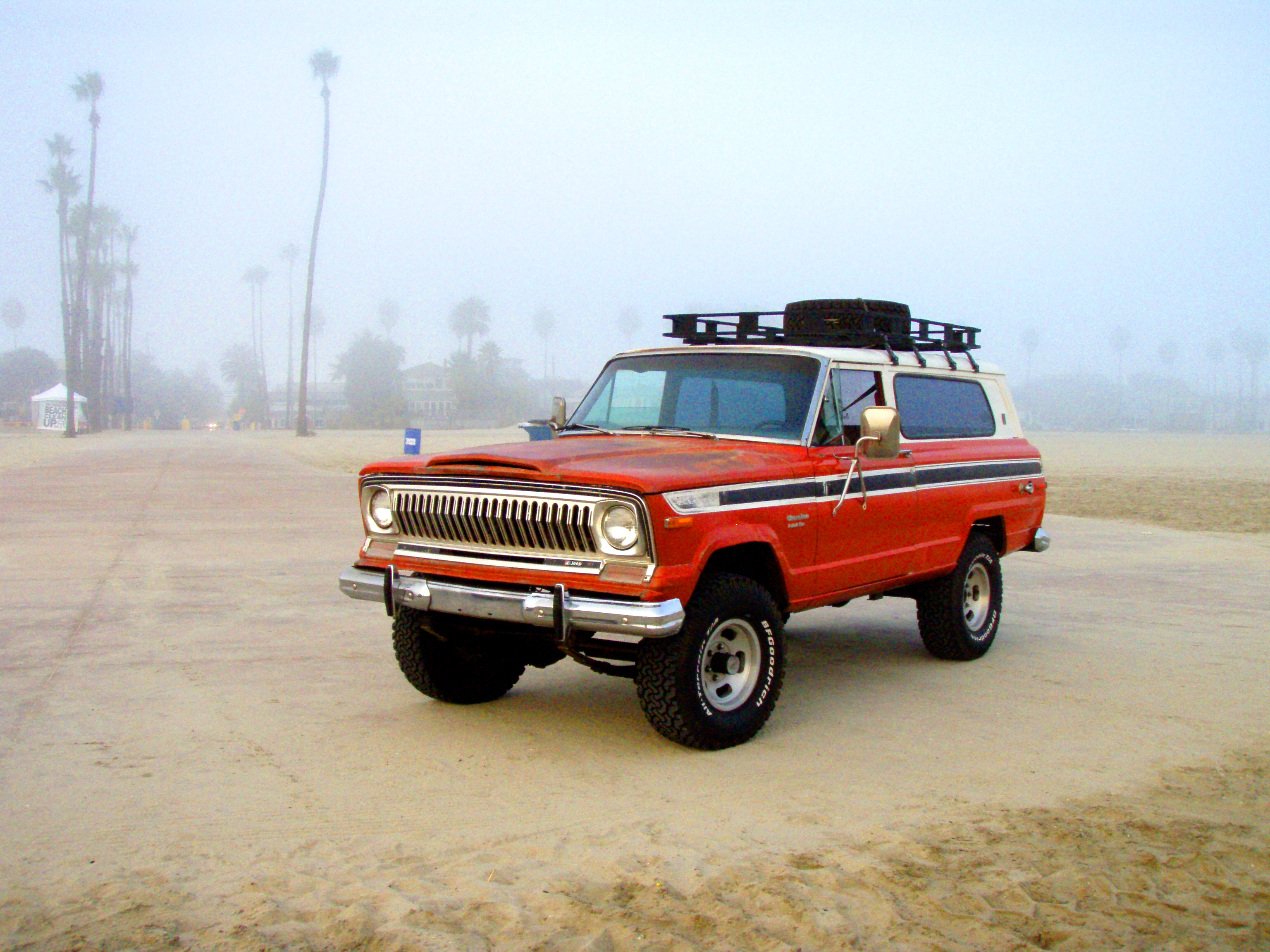 A Trans-Am Red 1974 Jeep Cherokee S posing at the beach.